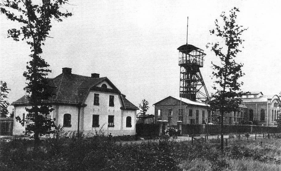 Pithead of Zachodni ventilation shaft (Westschacht) of coal mine Miechowice (Preußengrube), Bytom, Poland.